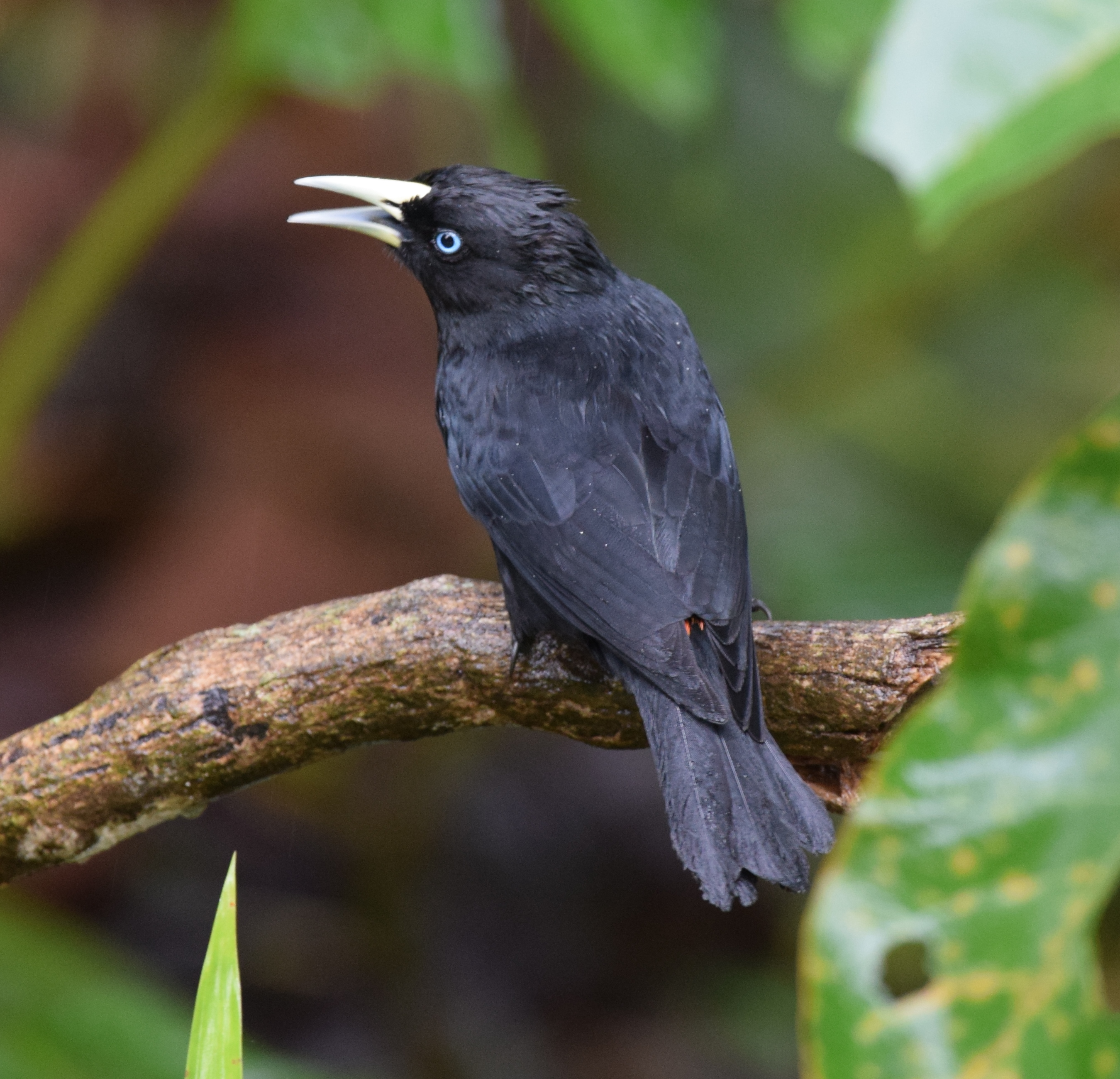 Costa Rica 2/12/16 Rancho Naturalista